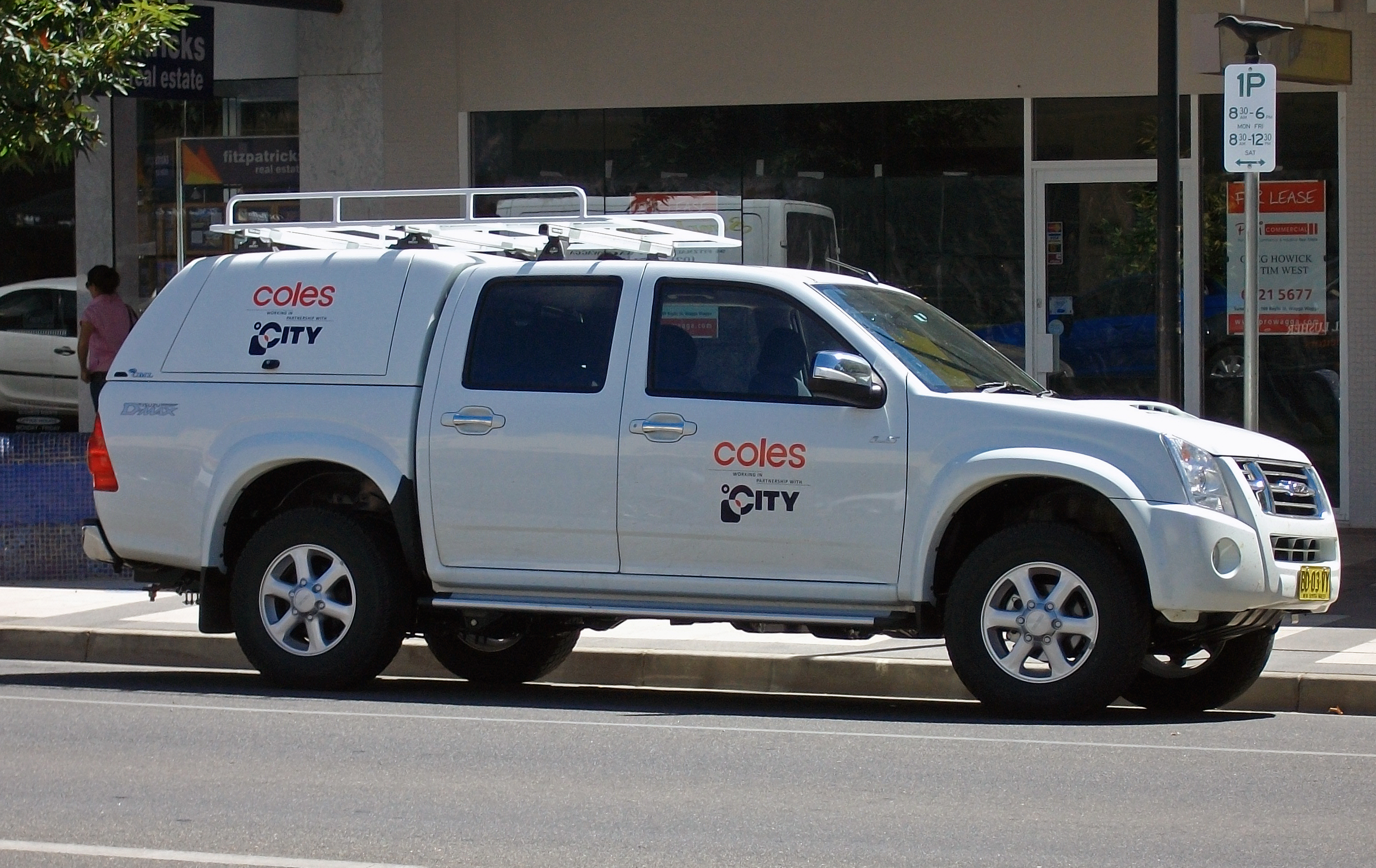 2009 Isuzu D-Max LS-U crew cab 4WD utility - Coles and City Refrigeration Holdings (Aust).